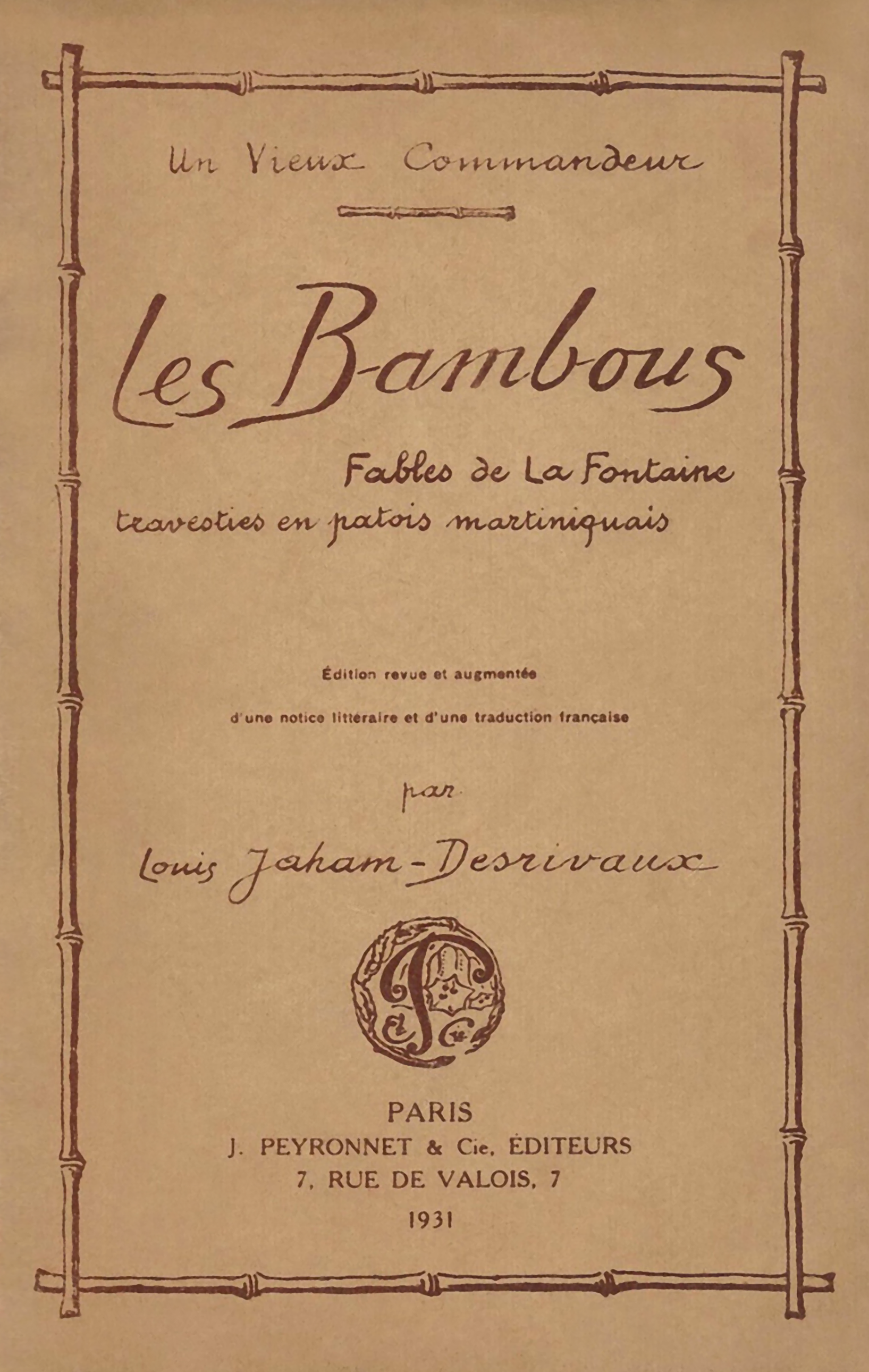 Les Bambous - La Fontaine's Fables in Martiniquan patois by François-Achille Marbot